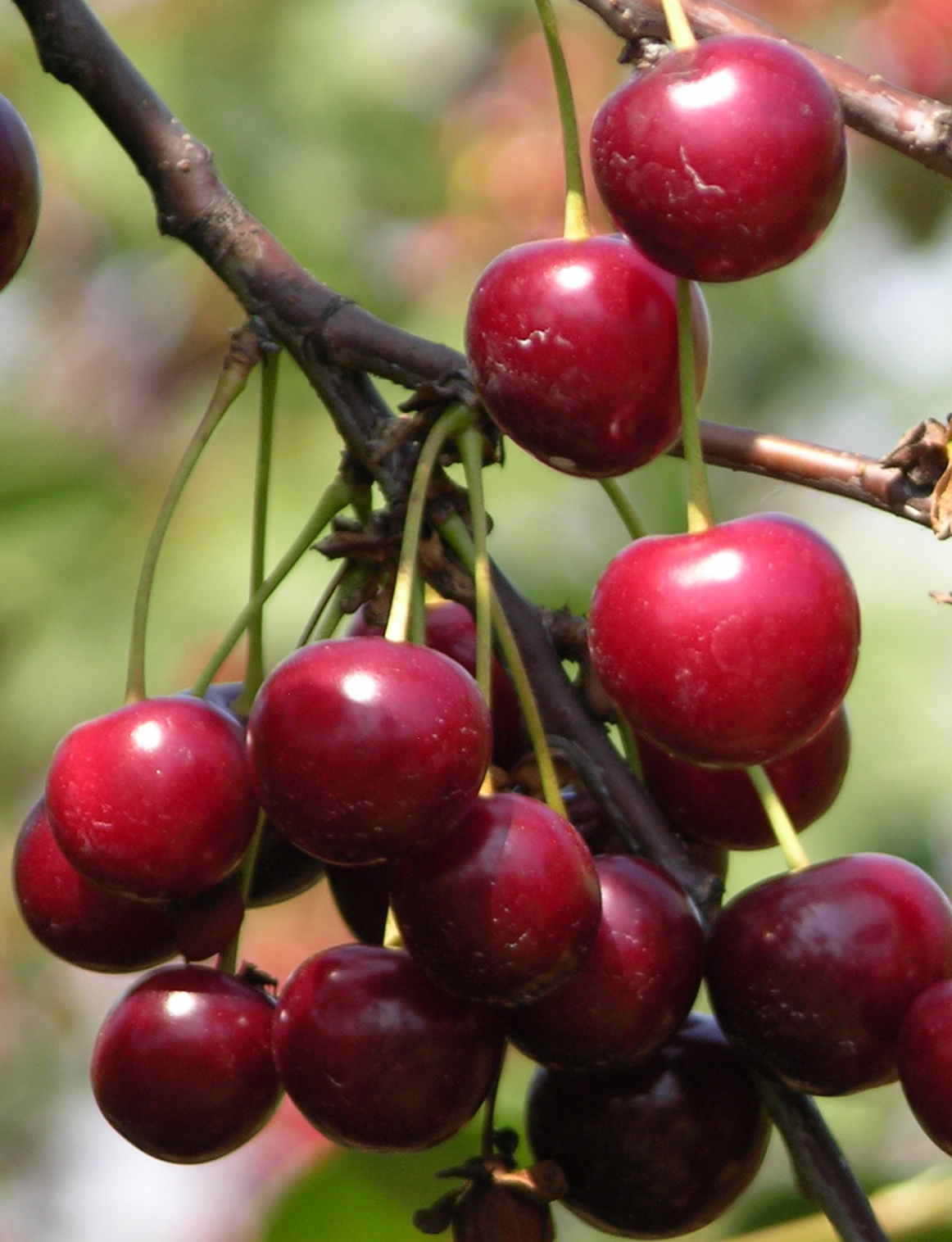 Sour Cherry - English Morello cultivar